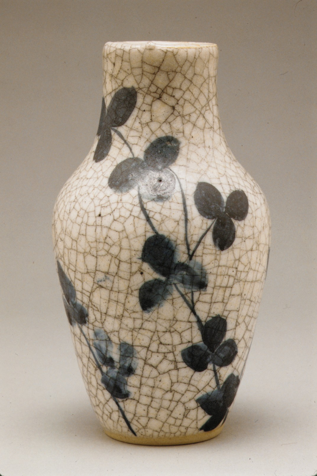 American; Vase; Ceramics